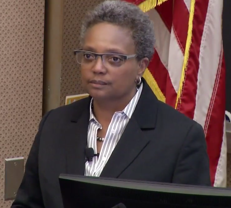 Lori Lightfoot at MacLean Center